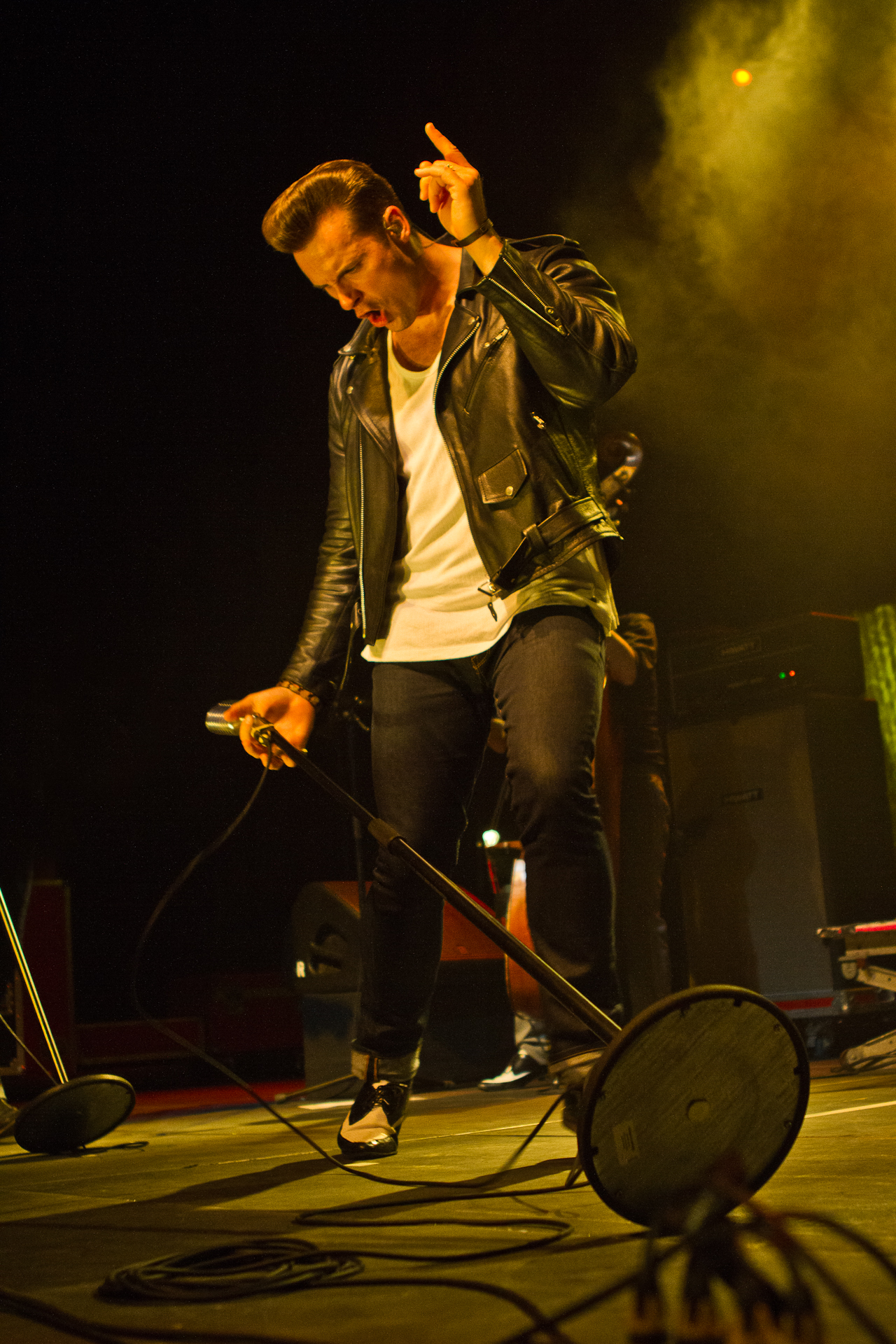 The Baseballs in the E-Werk Cologne